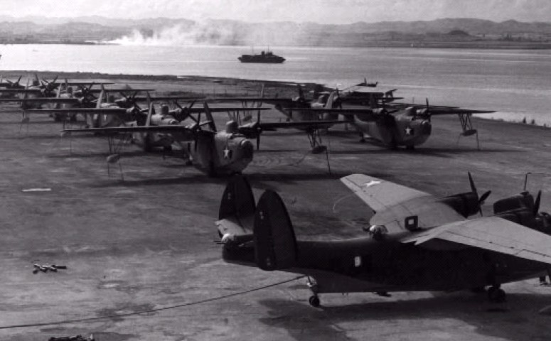 U.S. Navy Martin PBM-3C Mariners of patrol squadron VP-203 at Naval Air Station San Juan, Puerto Rico, 12 March 1943.